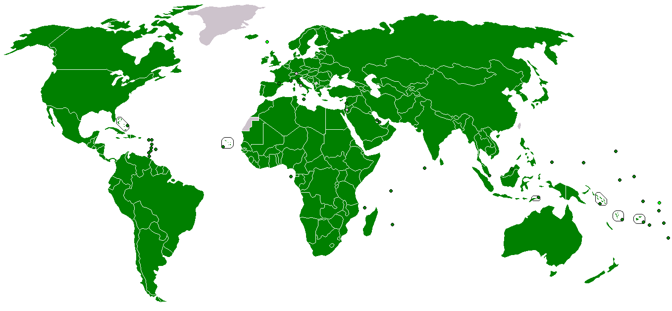 FAO members - dark green, observers - light green